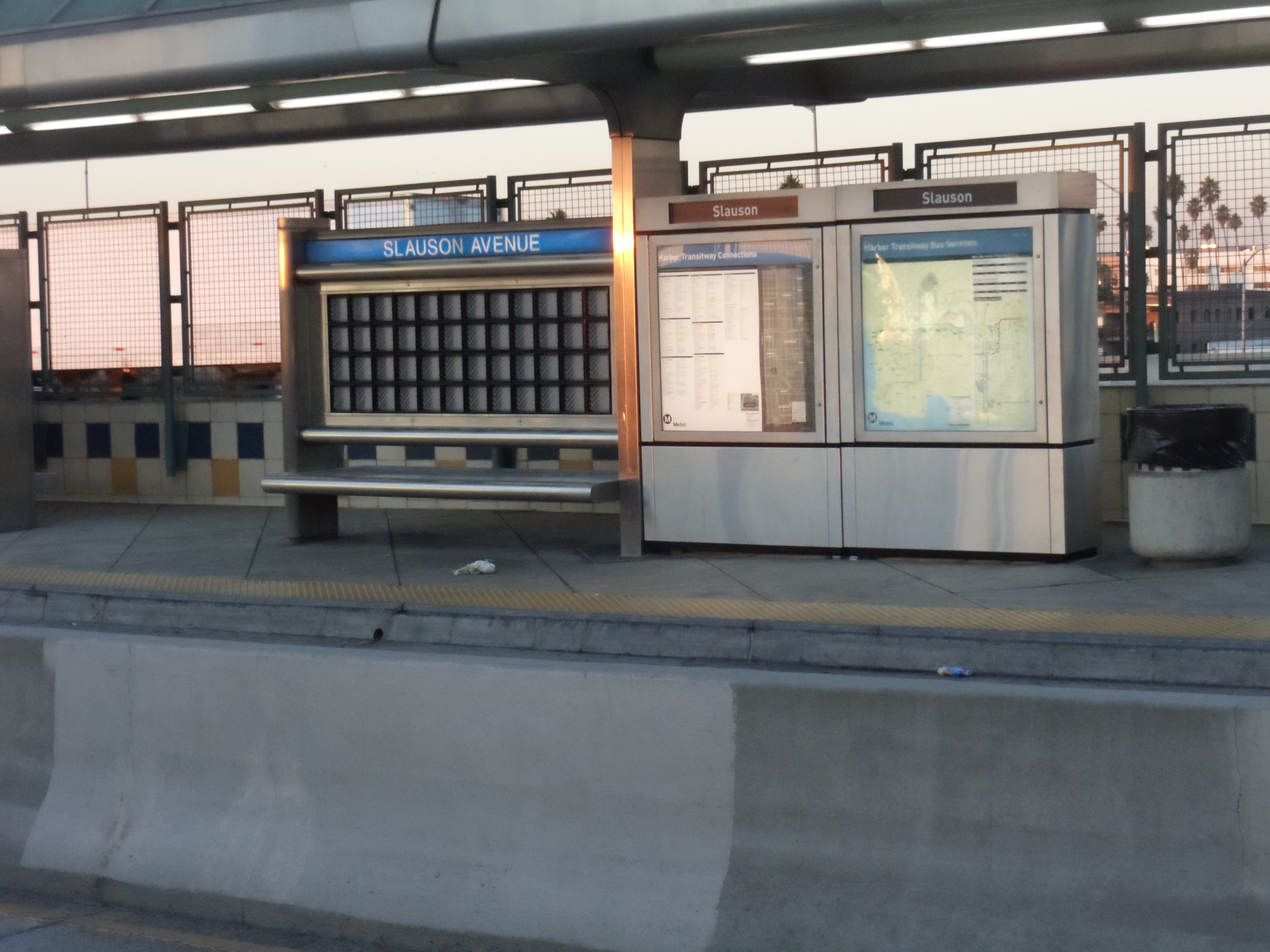 Slauson Silver Line Station southbound platform. The new information stands were burly posted last month.